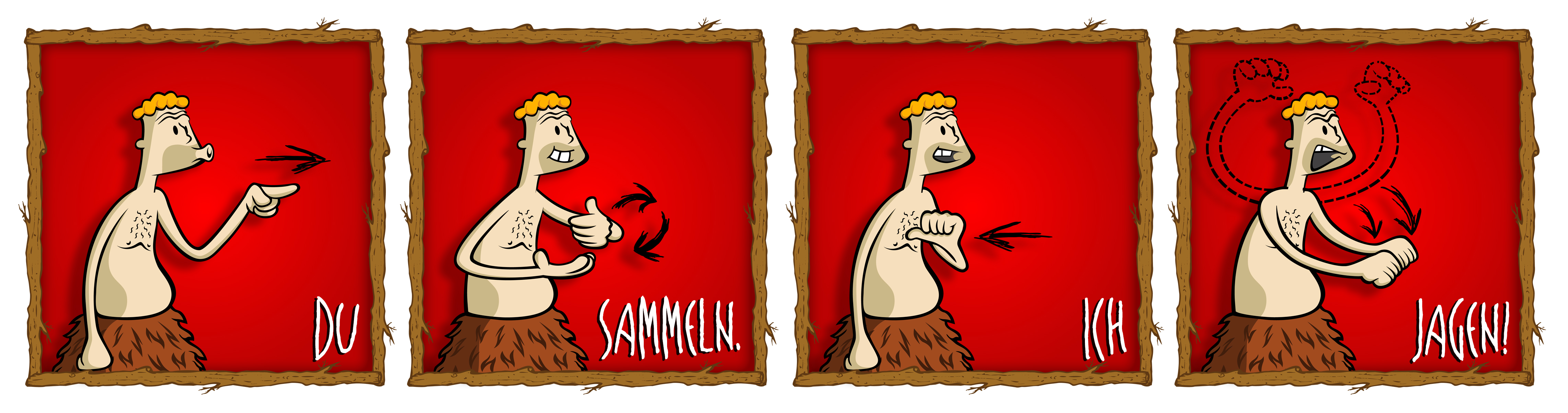 Deafcaveman - play - an illustration in the sign language